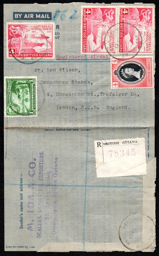 A 1954 aerogramme of British Guiana bearing multiple stamps and registered.